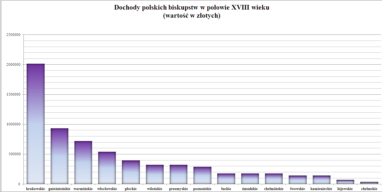 Revenue of the Polish bishoprics in the middle of the eighteenth century